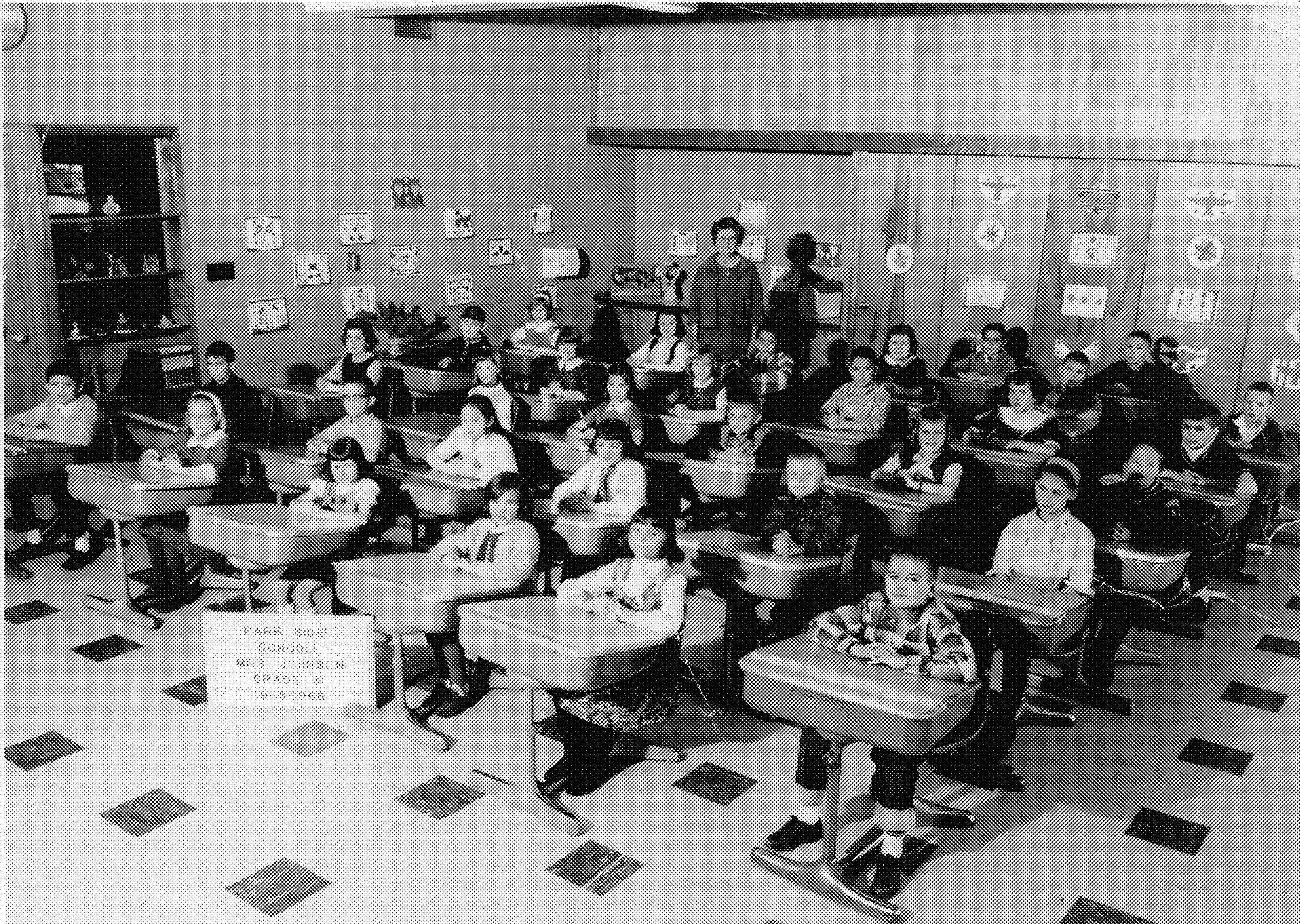 1965 3rd grade classroom at Parkside Elementary School in Hartford City Indiana